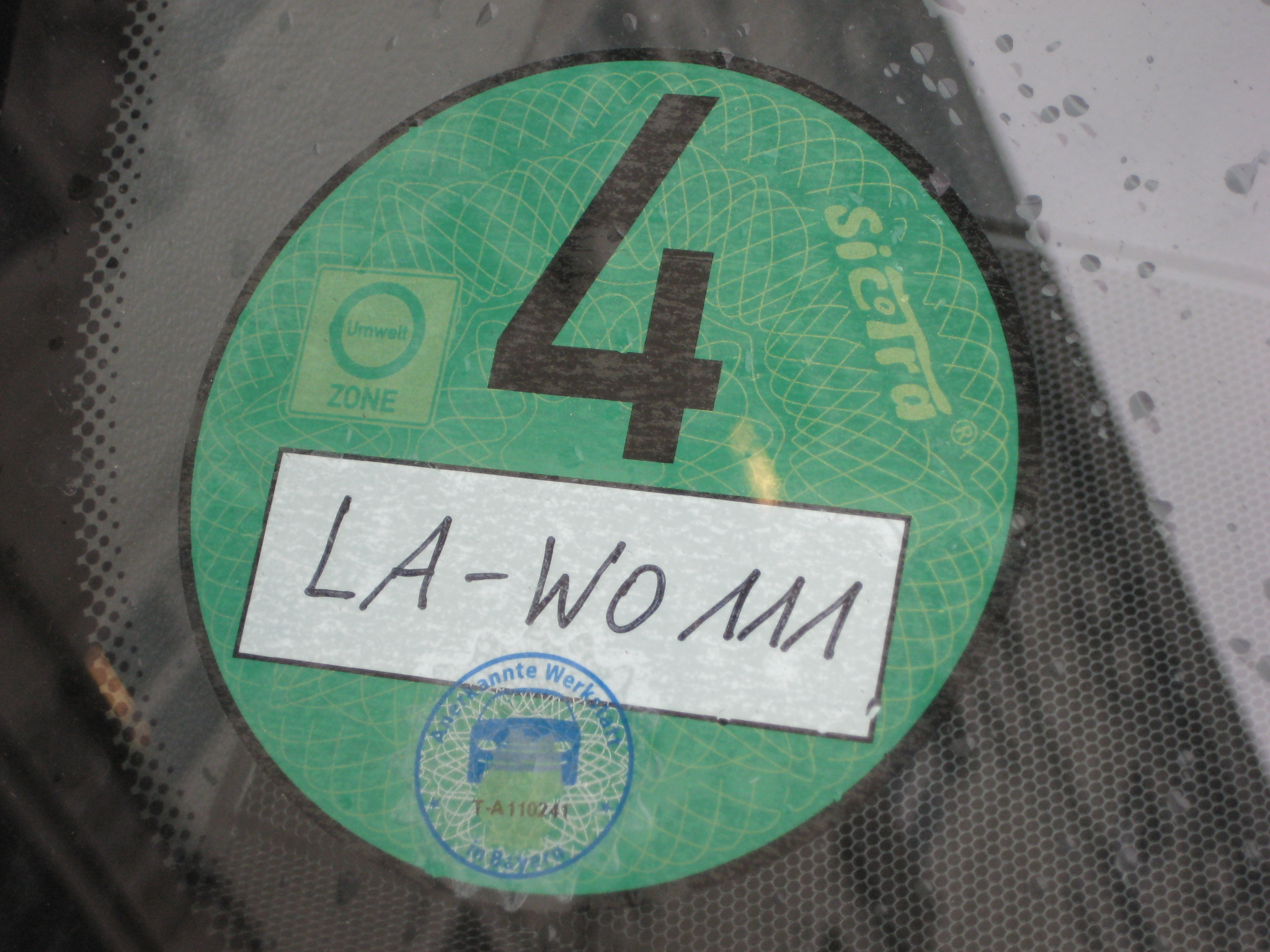 Sticker for Umweltzone in German Citys, Umweltplakette, traffic, car, pollution